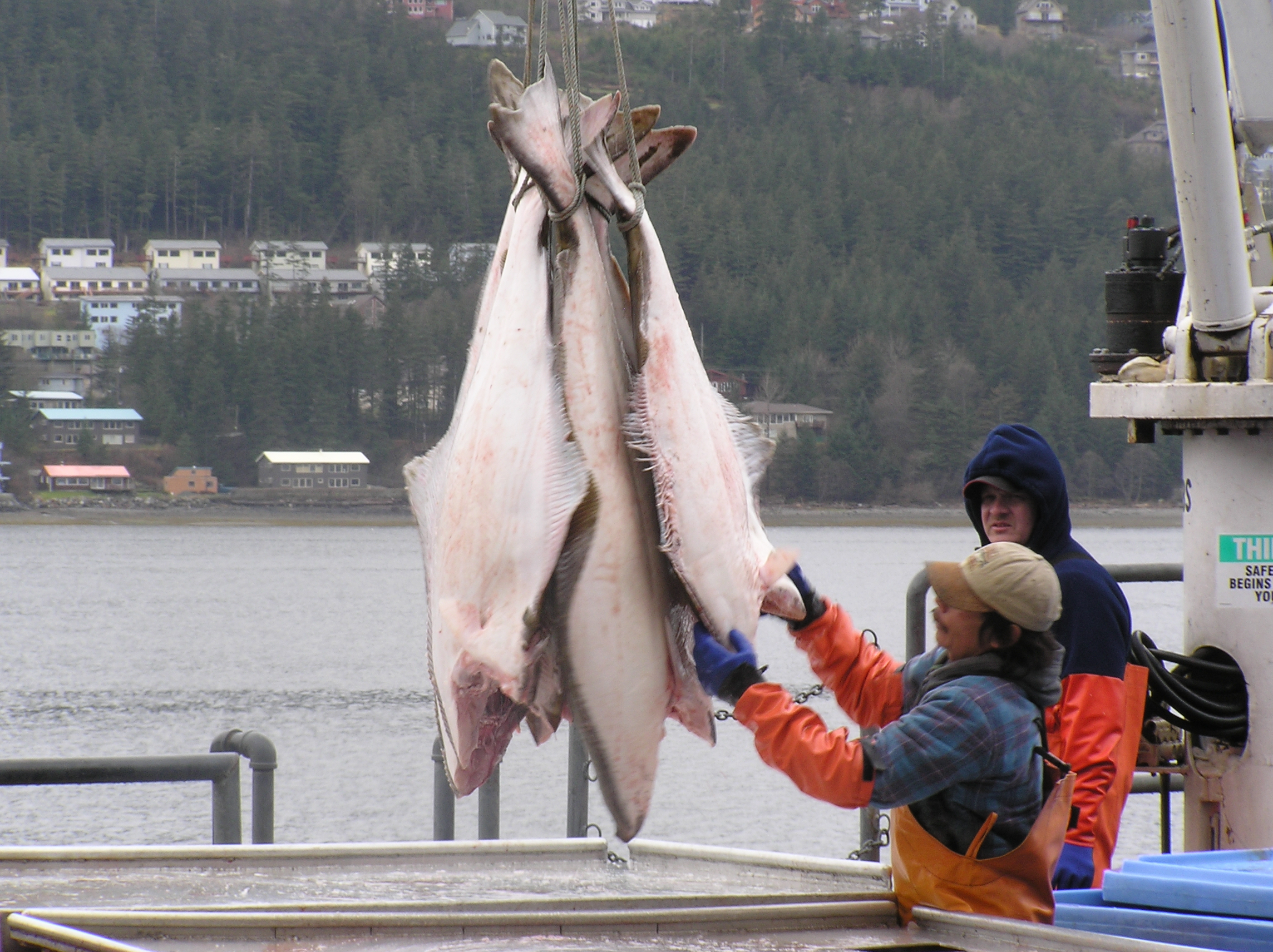 Halibut Processing in Juneau, Alaska